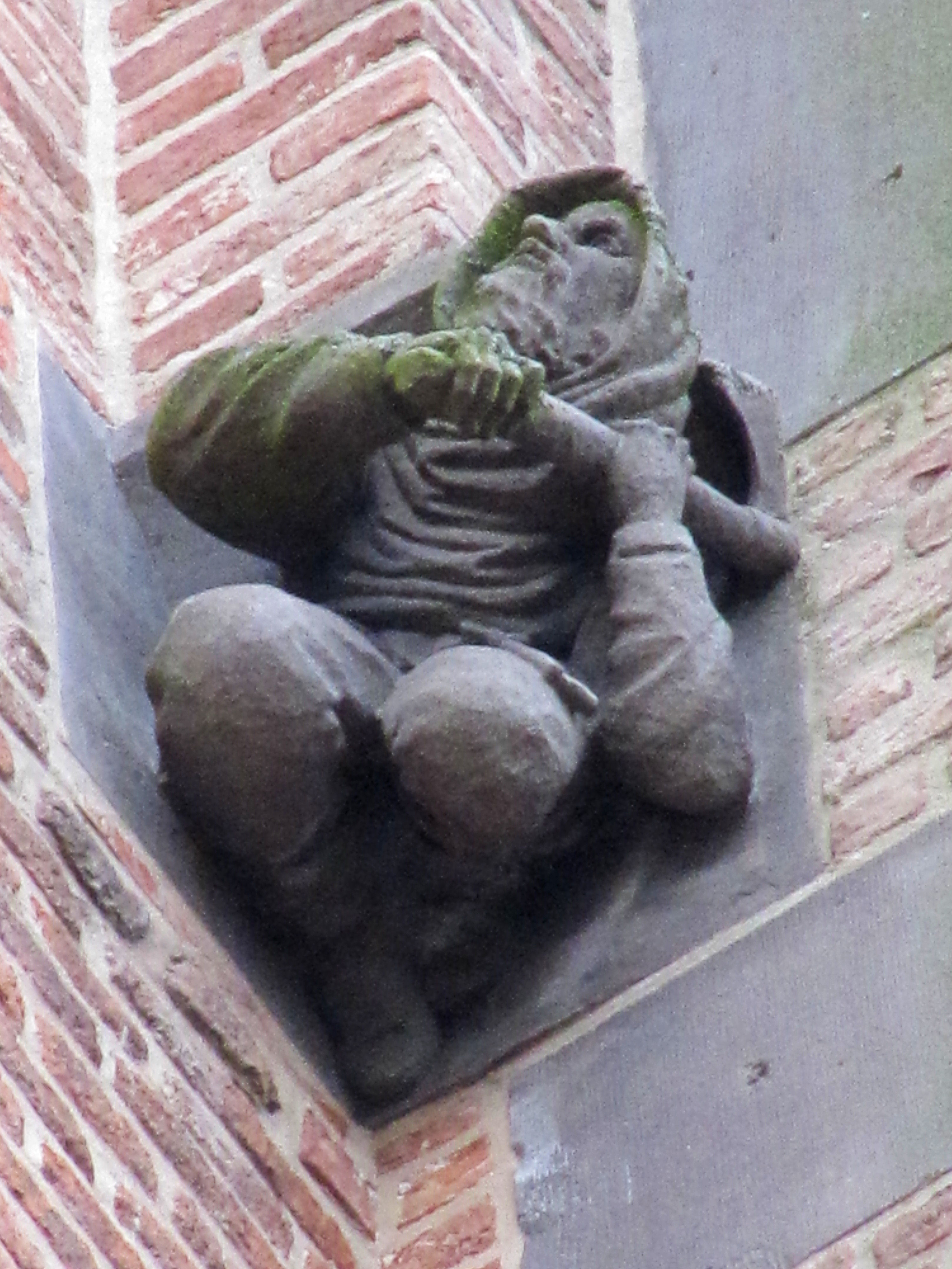 One of twelve consoles by Ton Mooy on the Onze Lieve Vrouwetoren in Amersfoort, The Netherlands: Leendert Nicolaus, city carpenter, who saved the Onze Lieve Vrouwetoren from destruction in 1651 after it was struck by lightning. French Volvic basaltlava